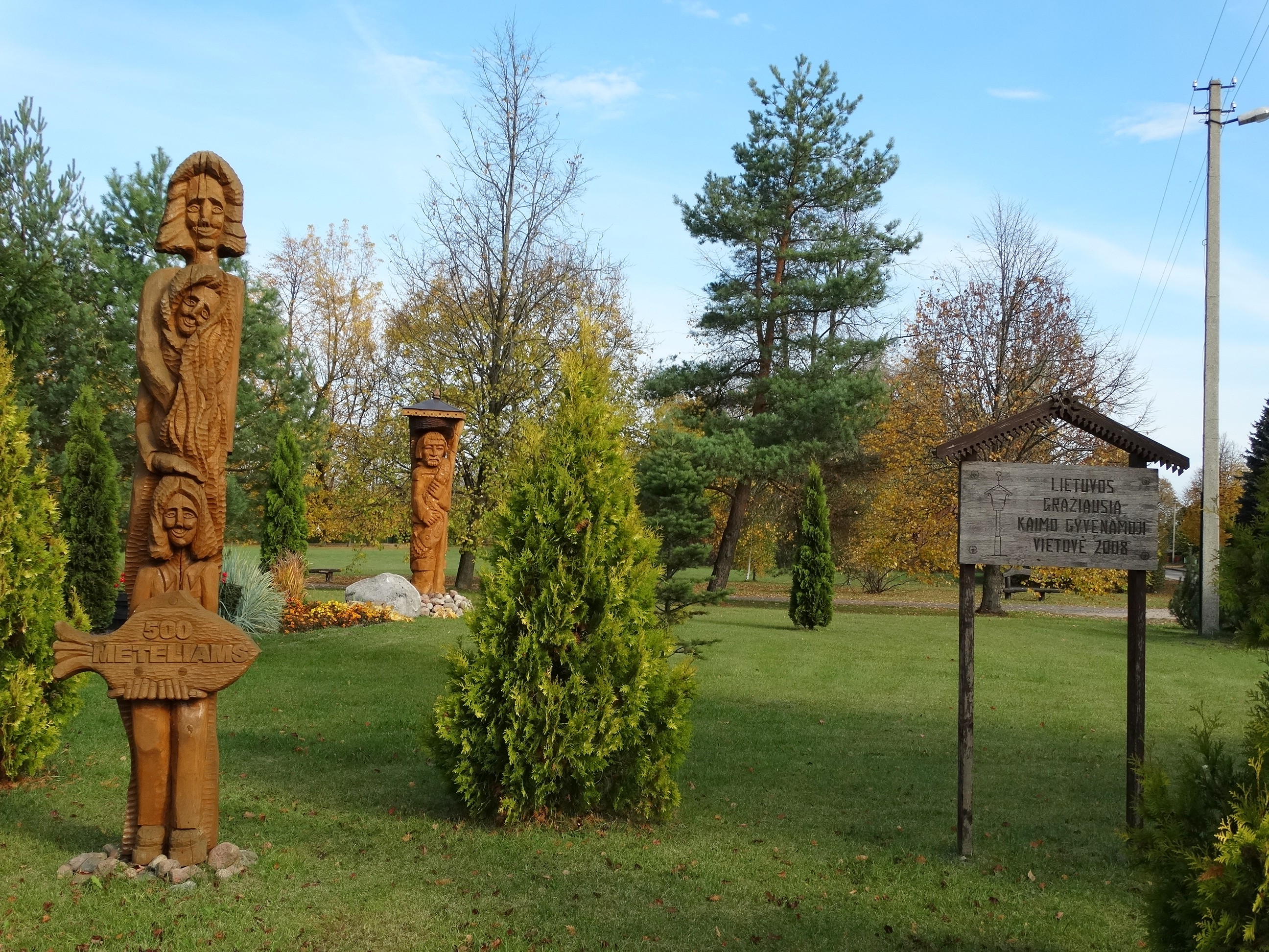 Meteliai, Lazdijai district, Lithuania